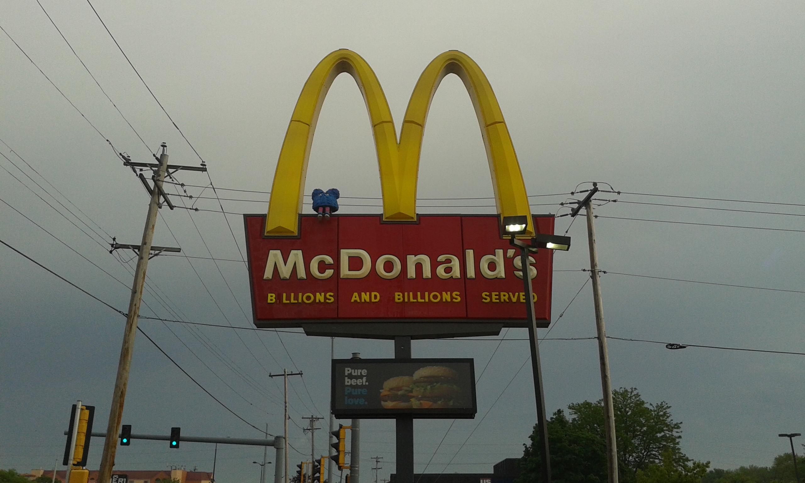 A blue Fry Kid is perched on a McDonald's sign in Milwaukee, Wisconsin.